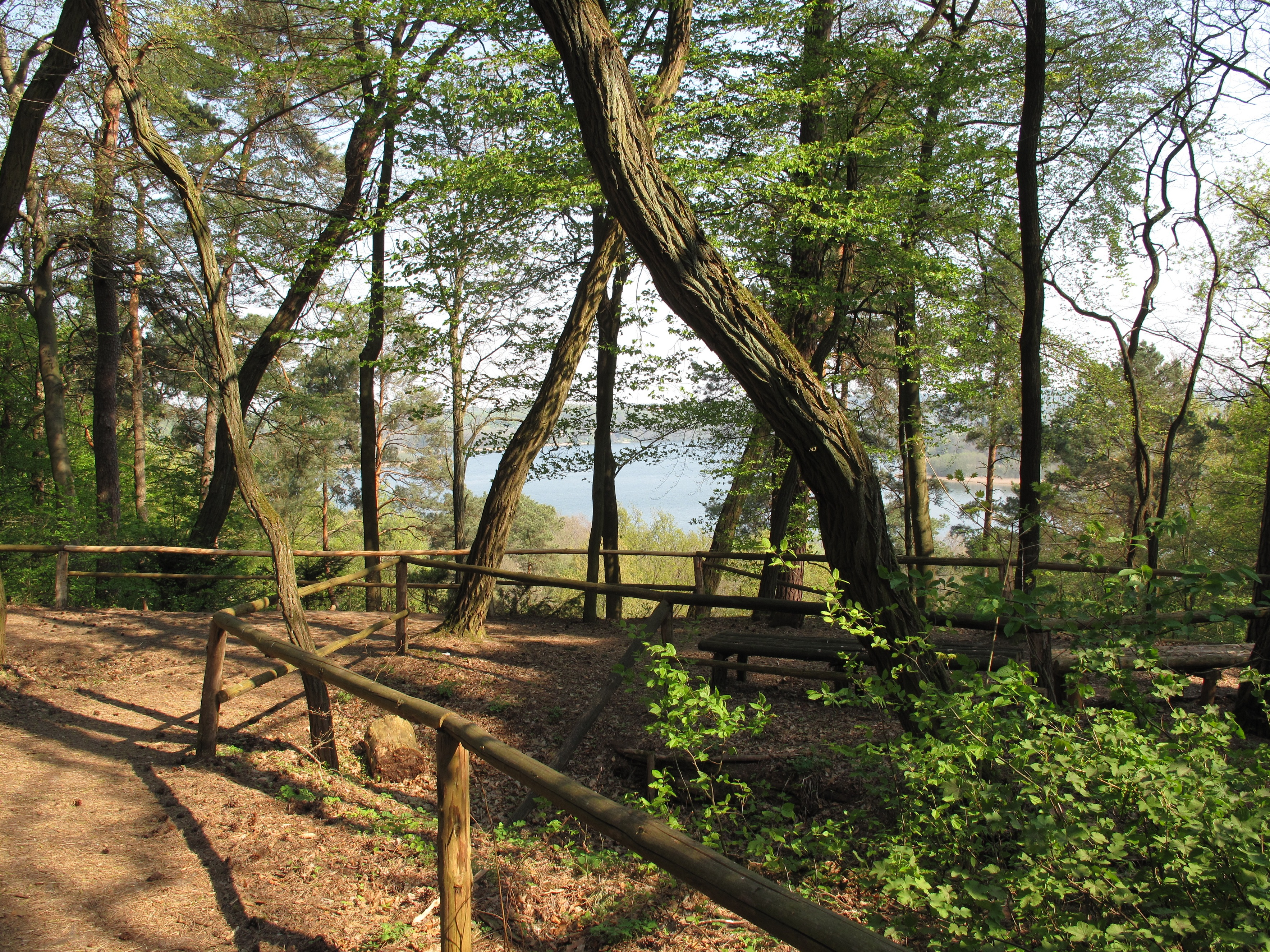 The Panoramaweg is a part of the approximately 7,5 kilometres long walking path around the Schermützelsee. The Schermützelsee is a lake in Buckow, District Märkisch-Oderland, Brandenburg, Germany. The lake covers 137 hectare and is the largest water in the hill country „Märkische Schweiz“ and in the Märkische Schweiz Nature Park.